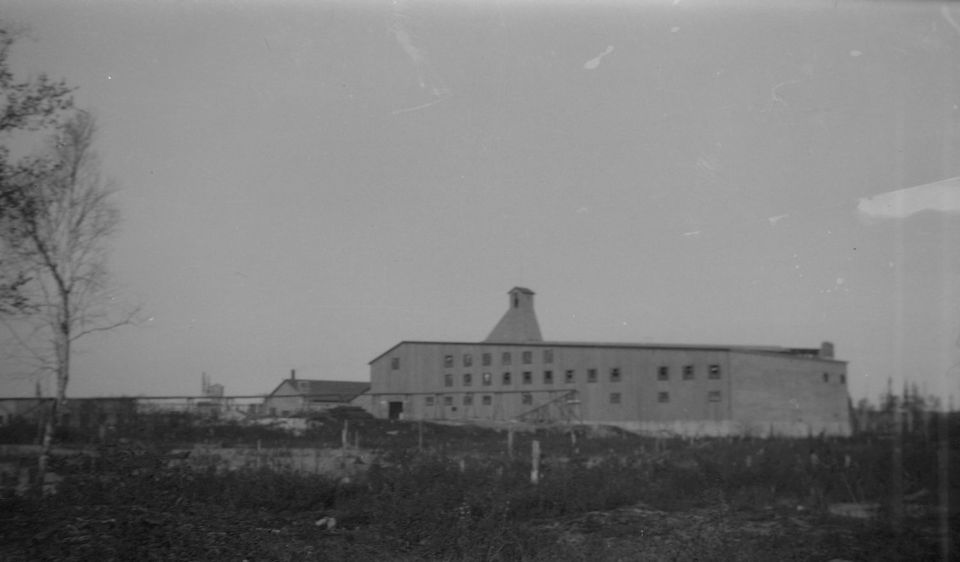 Overview of the facilities of a mining company to exploit gold, Lamague Gold Mine Abitibi.